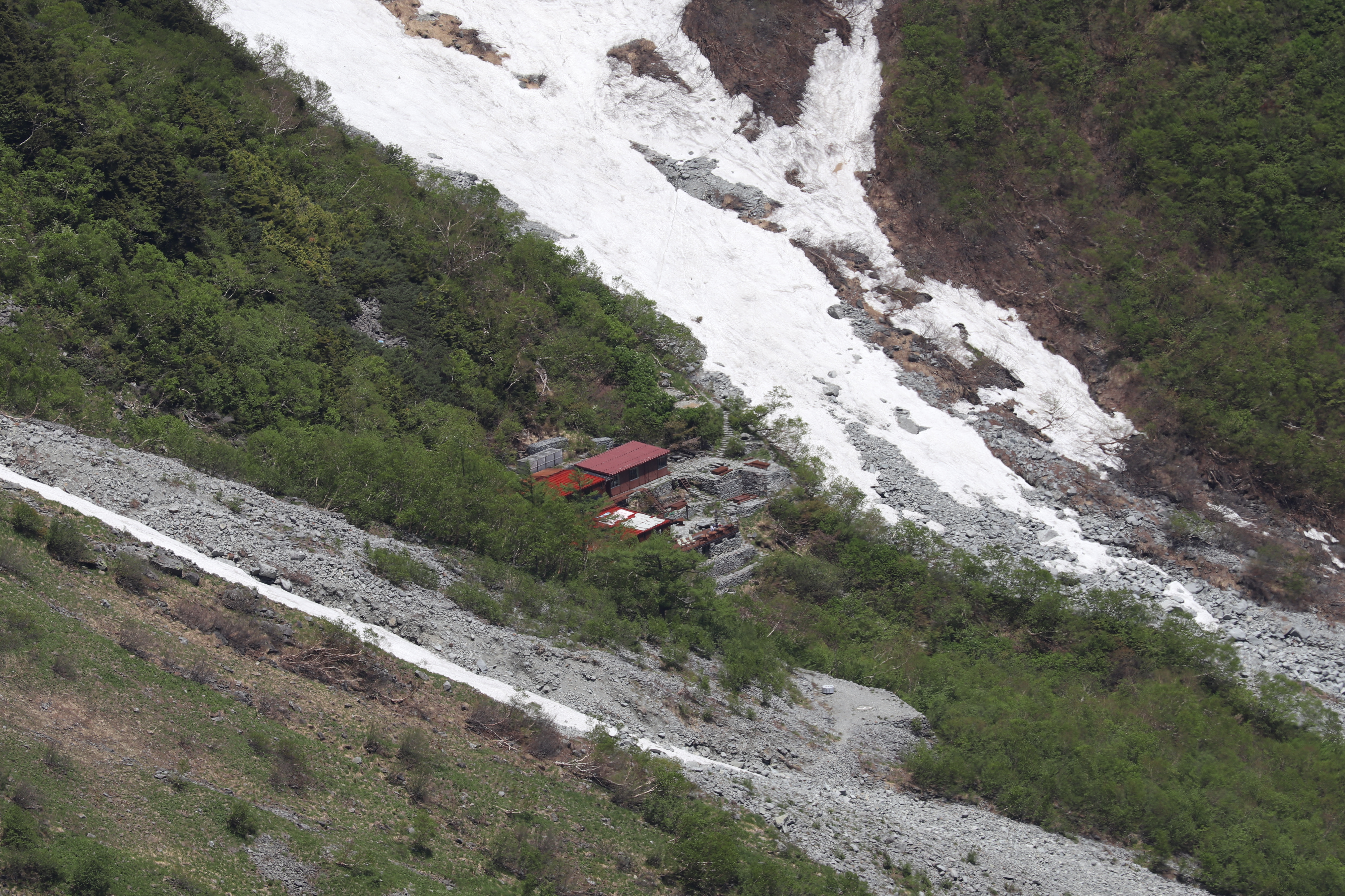 Dakesawagoya hut seen from Mount Nishihotaka in Matsumoto, Nagano Prefecture, Japan